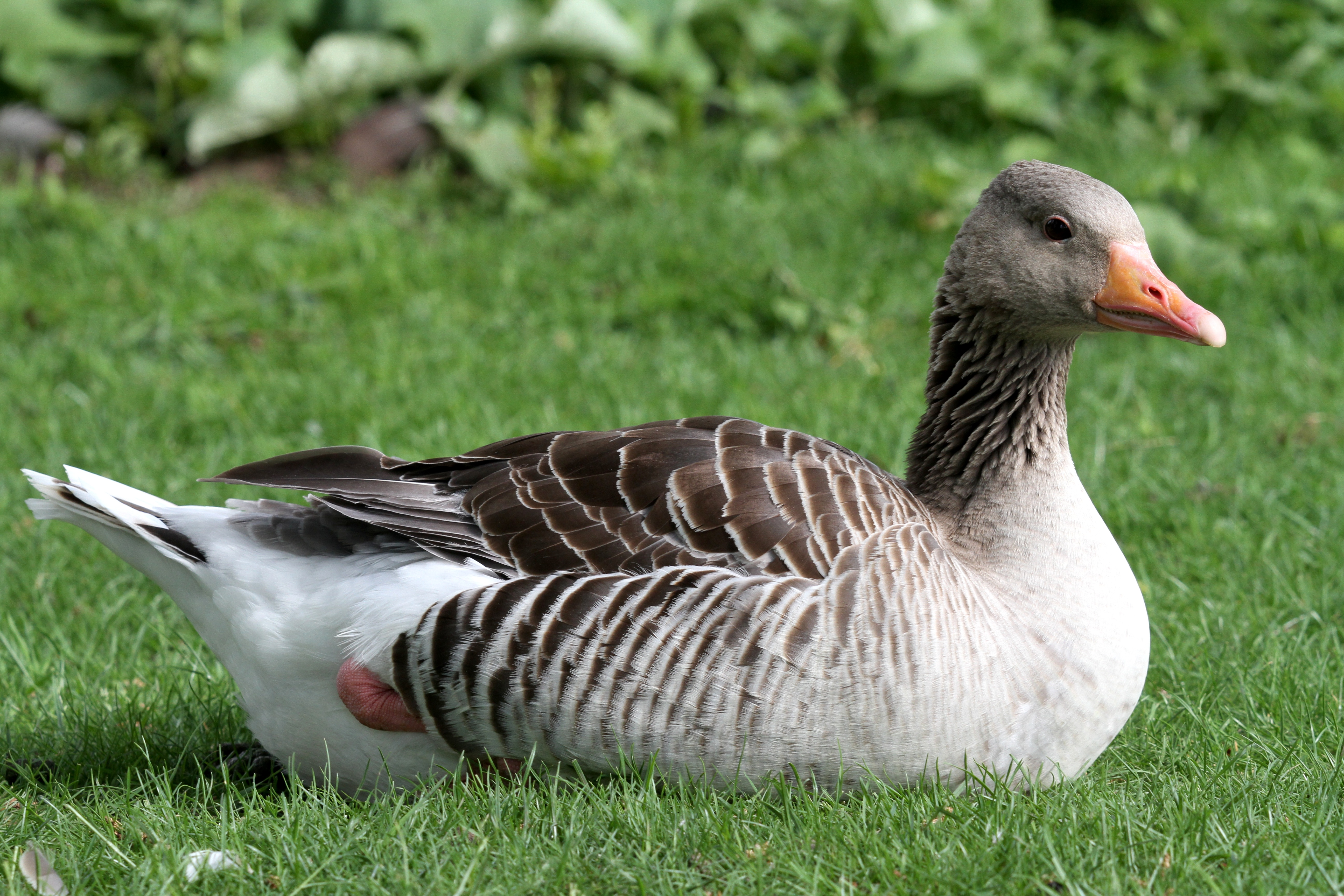 Anser anser Goose